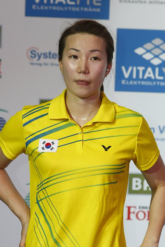 Kim Min Jung